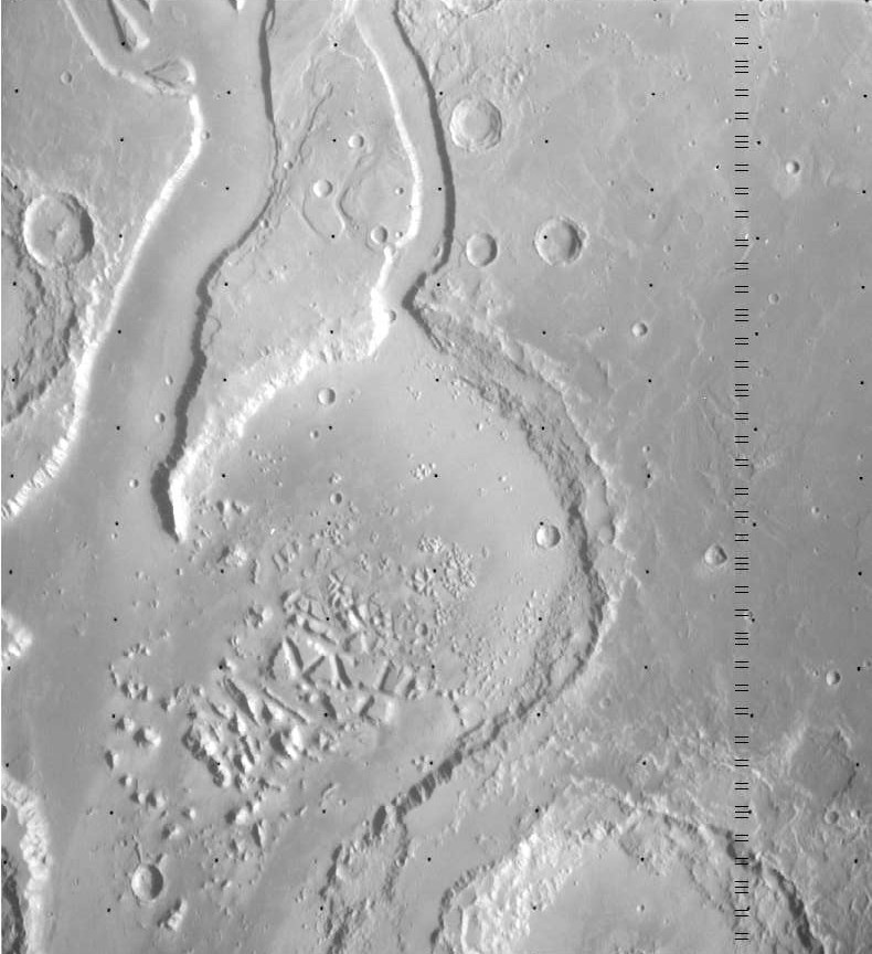 Masursky crater on Mars (center). Viking 1 image from camera A (366S07). Minus Blue filter was used for this image. Resolution is about 205 m/pixel. Rotated so that approximate north is at top. Strip of black lines at right is present on original image. Emission Angle: 8.6 Incidence Angle: 67.7 Latitude: 12 Longitude: 328 Phase Angle: 61.2